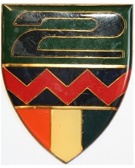 SADF 2 SAI emblem